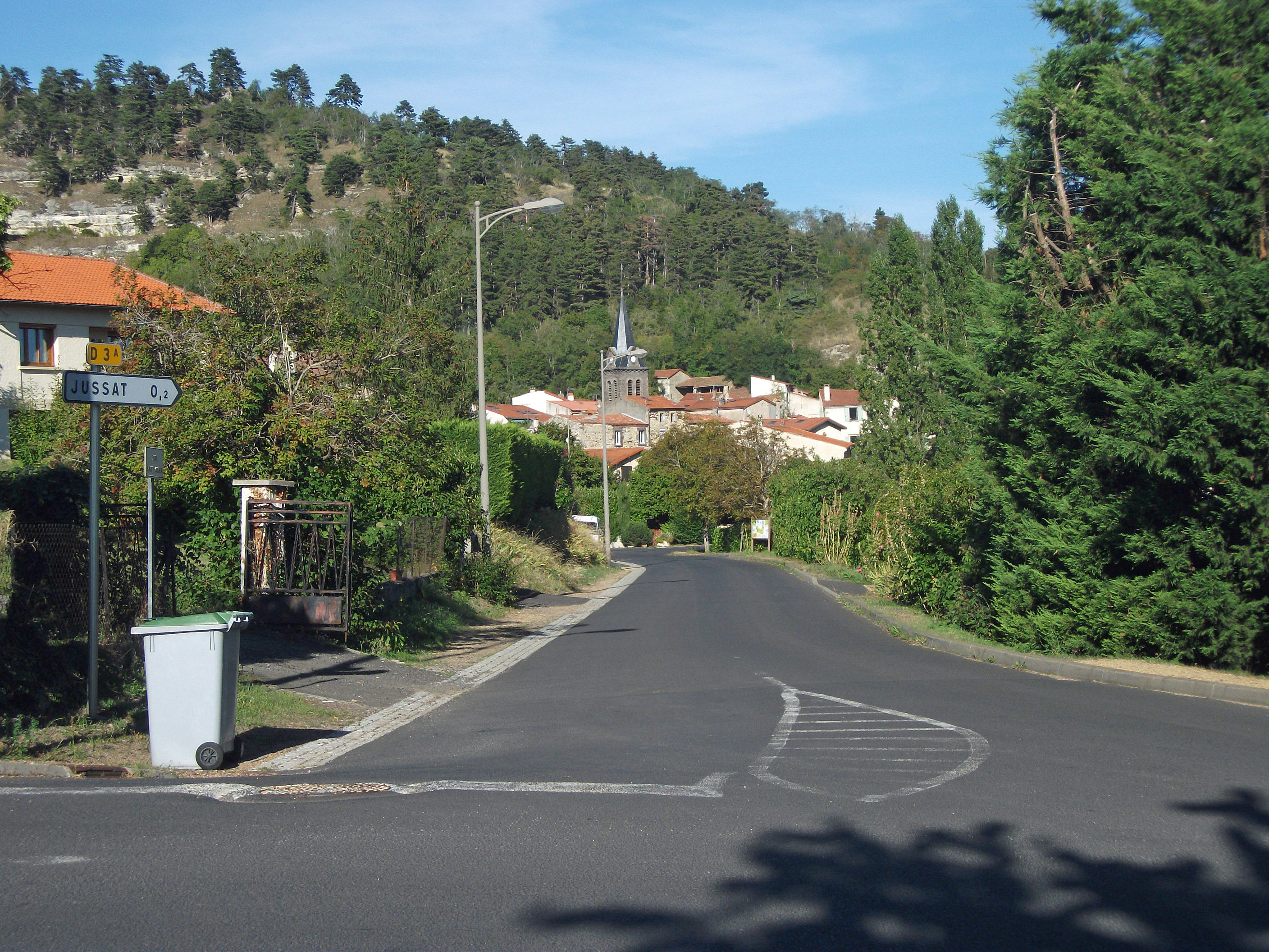 Rue Saint-Julien in Jussat, Chanonat [12011]